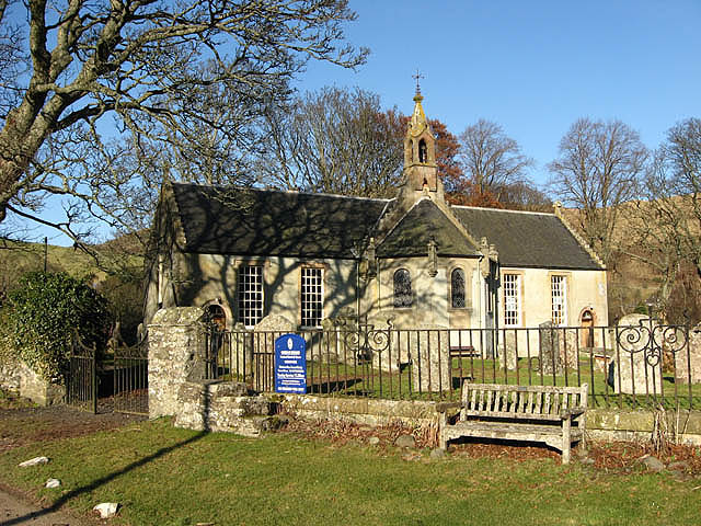 Yarrow Parish Kirk in February Built in 1640 after the kirk moved from St Mary's of the Lowes, with major works in 1771-2 to heighten the walls and insert lofts. Further works were carried out in 1826 and 1876, but the character of the building was greatly modified in 1906 by the addition of a polygonal apse in the centre of the south wall. The churchyard contains a mixture of 17th, 18th and 19th century table tombs, headstones and obelisks, and there is a mounting block at the entrance gates. (Source: Pevsner Architectural Guide - Borders).